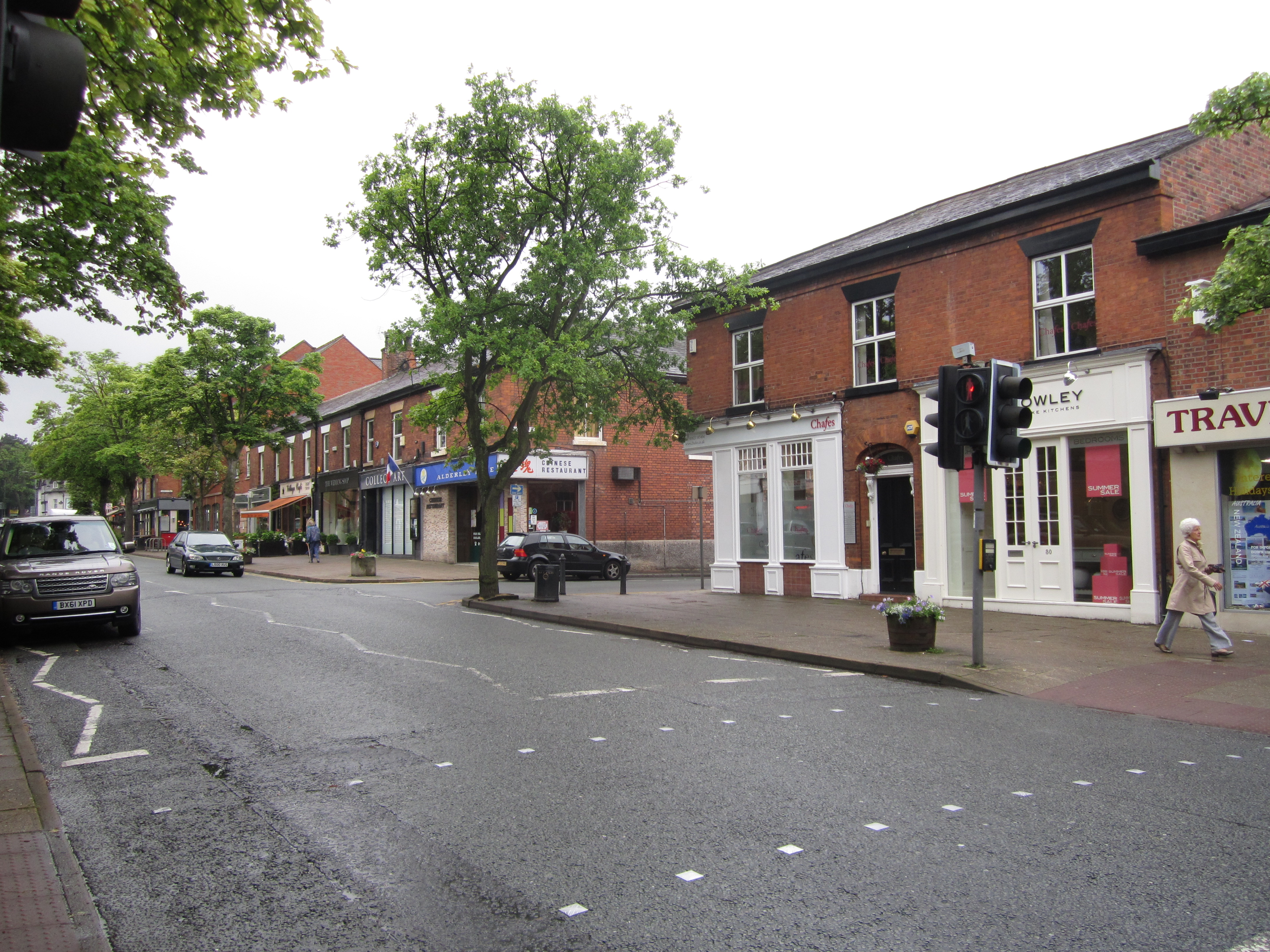 Photo taken at Alderley Edge, Cheshire, England.